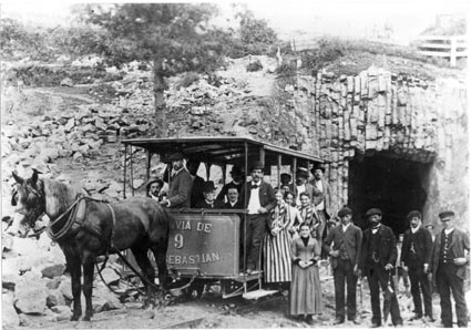 Herrera-tunnel in San Sebastián